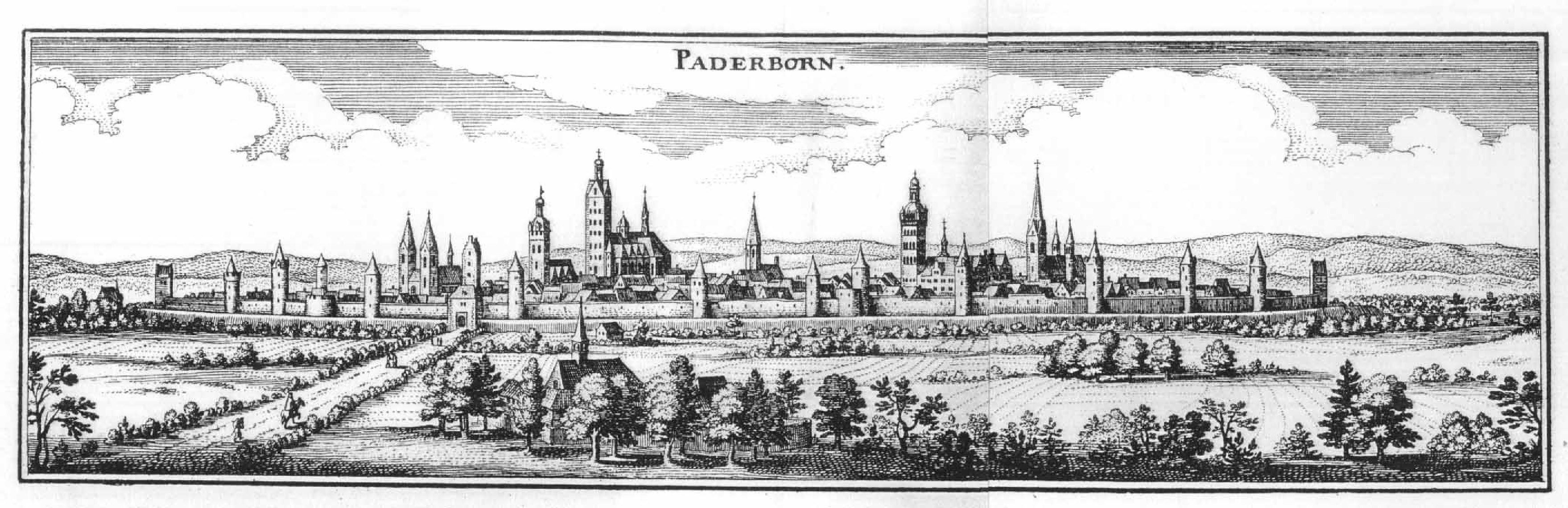 This is a scan of the historical document